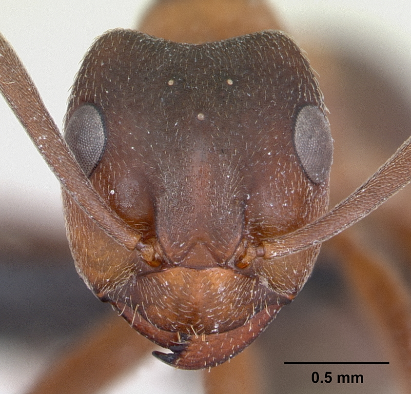 Head view of ant Formica exsecta specimen casent0173161.